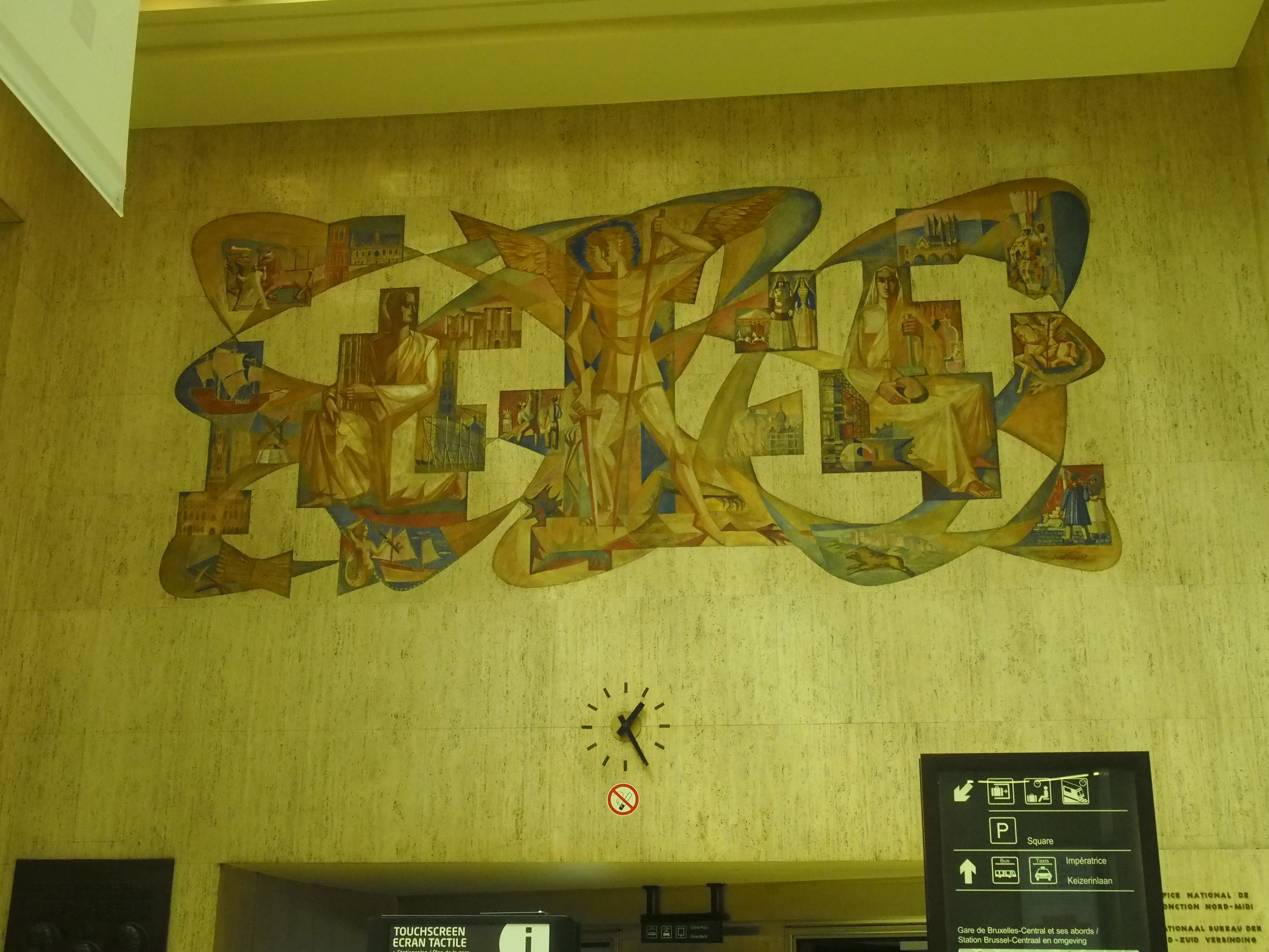 Mural insie Brussels Central train station